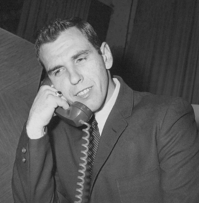 1960 US Olympic Hockey Goalie Jack McCartan Joined New York Rangers Press Photo